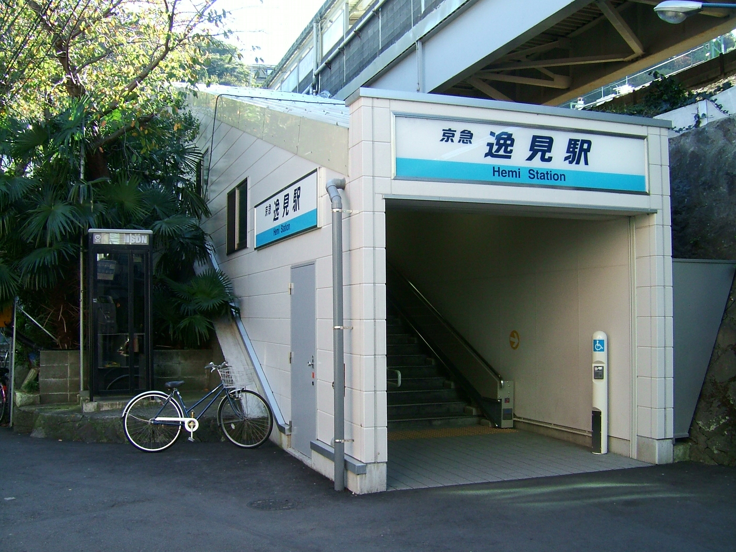 Hemi Station entrance (Keihin Electric Express Railway Main Line)